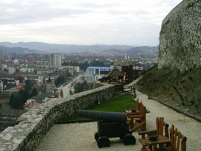 Doboj fortress with a view of the city itself, BiH